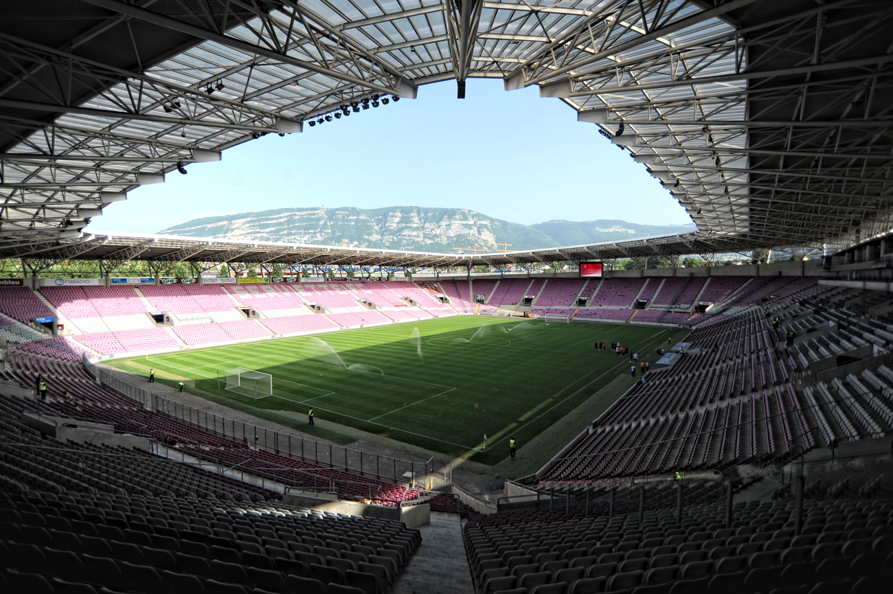 Stade de Genève in Lancy (GE), Switzerland